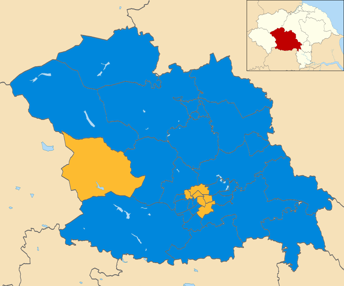 Map showing the makeup of Harrogate District Council as of 10/11/2017.